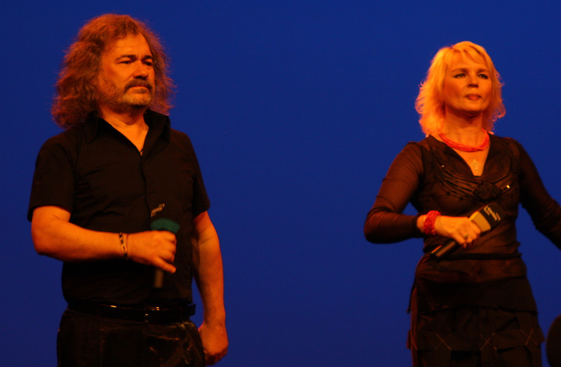 Taras Petrynenko in concert in Munich Gasteig.